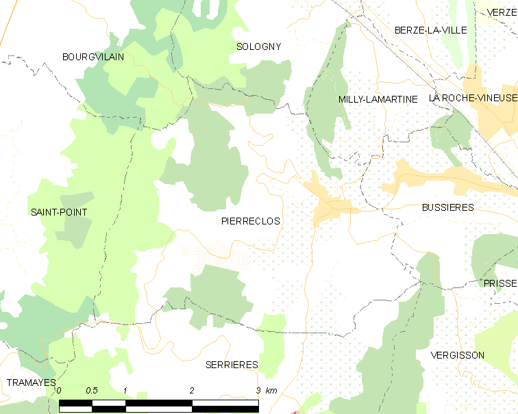 Map of French municipality